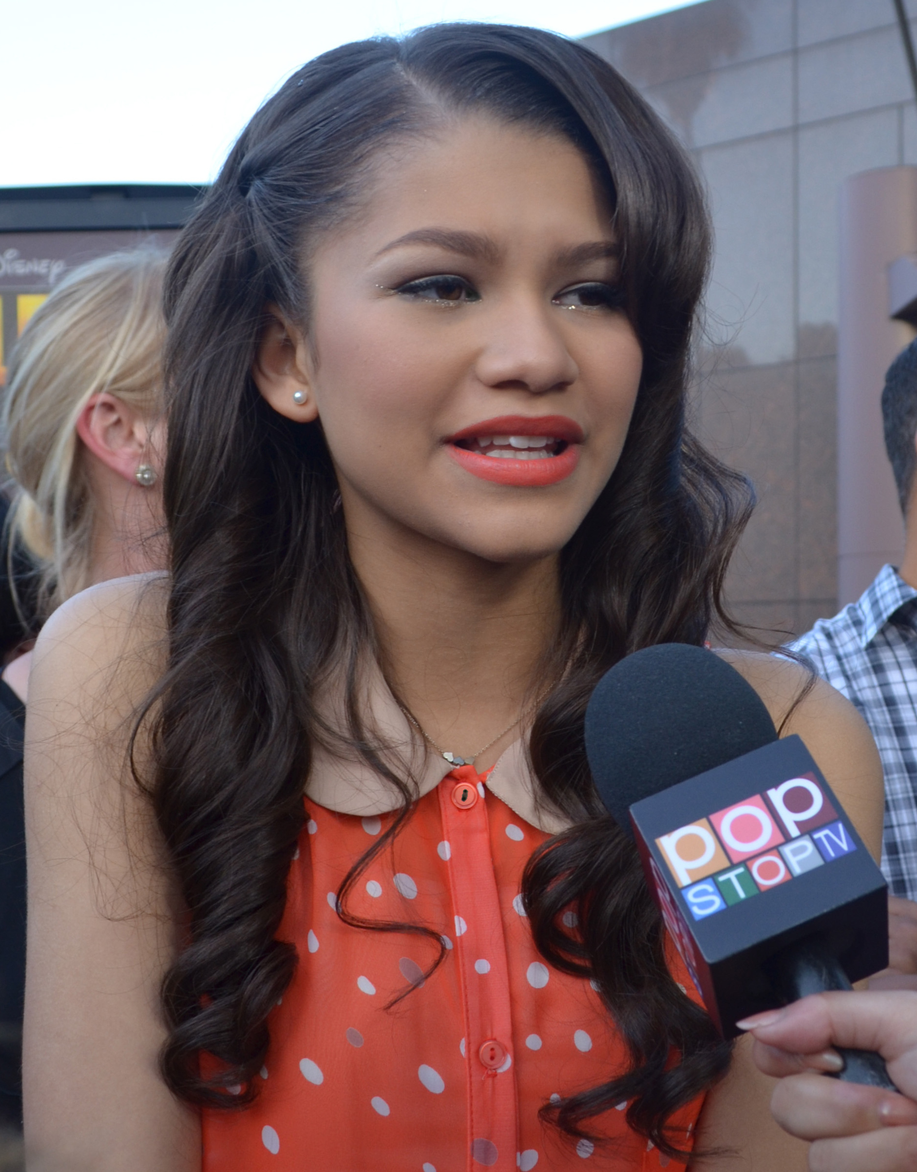 Zendaya at the Hollywood Premiere of Disney Channel's "Let It Shine" 2012.